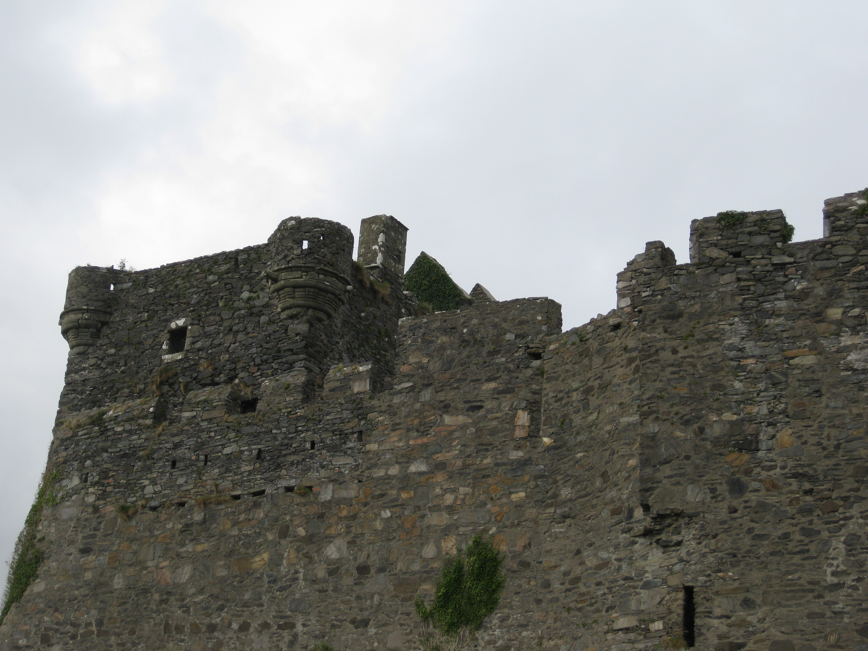 Castle Tioram, photography of upper parts, July 2010